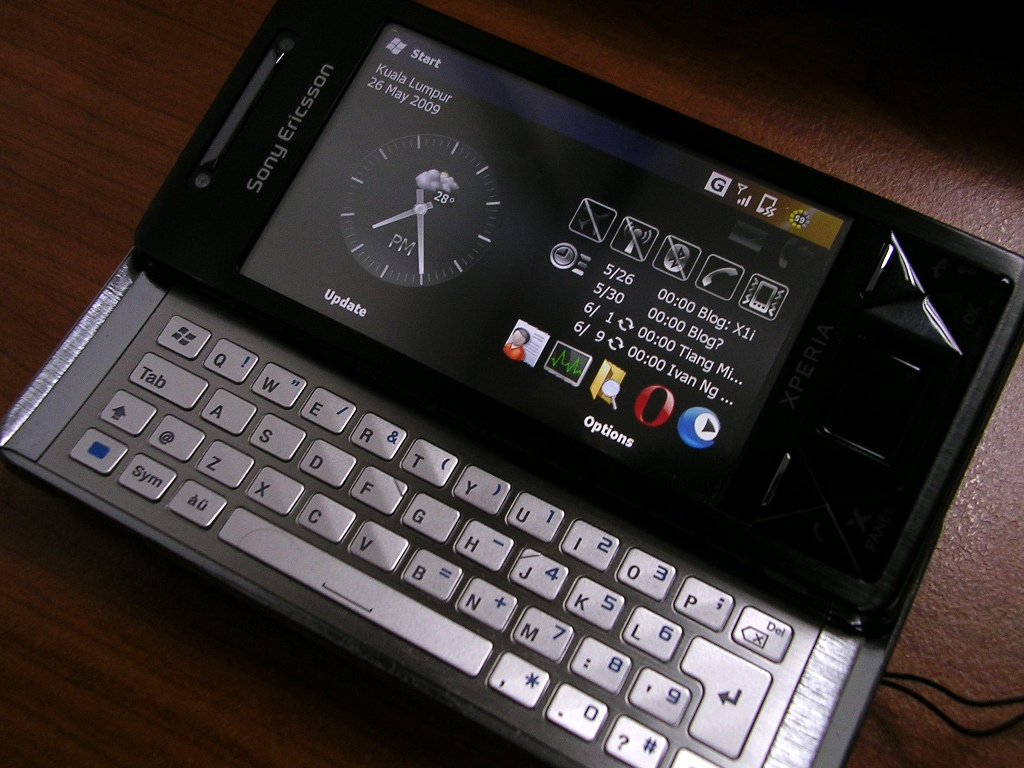 My Sony Ericsson Xperia X1i in landscape.